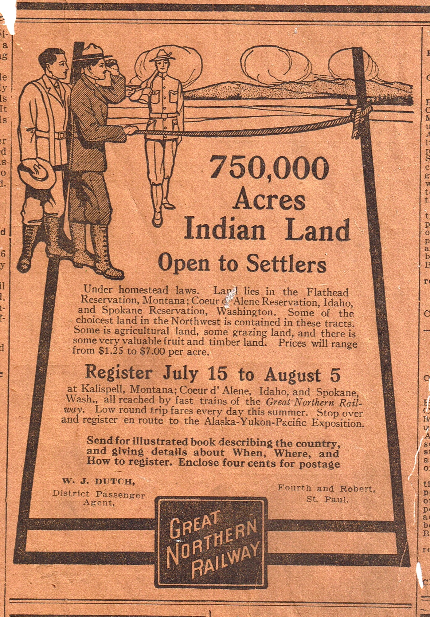 Advertisement for Great Northern Railway. Scanned from a St. Paul, Minnesota newspaper.